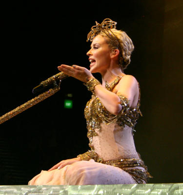 Kylie Minogue concert in Manchester